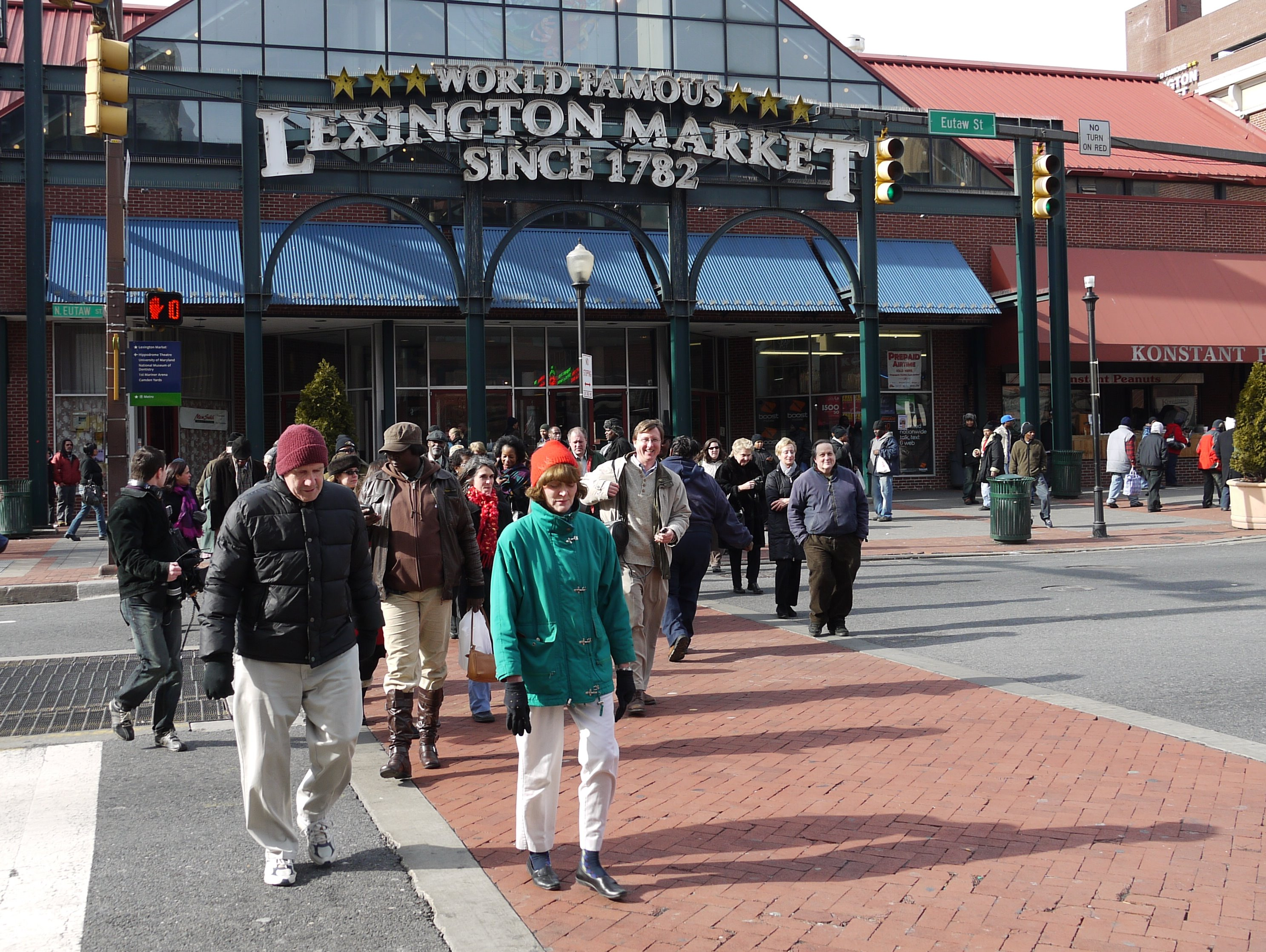 Visit the Baltimore Heritage website for more information on the West Side and the redevelopment of the Superblock. Join us and the Reginald F. Lewis Museum for a public forum and panel discussion on Preserving Baltimore’s Civil Rights Heritage on February 9, 7:00 PM to 8:30 PM. RSVP Today!